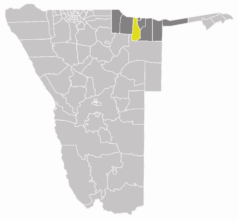 map of the Kapako constituency within the Kavango region, Namibia